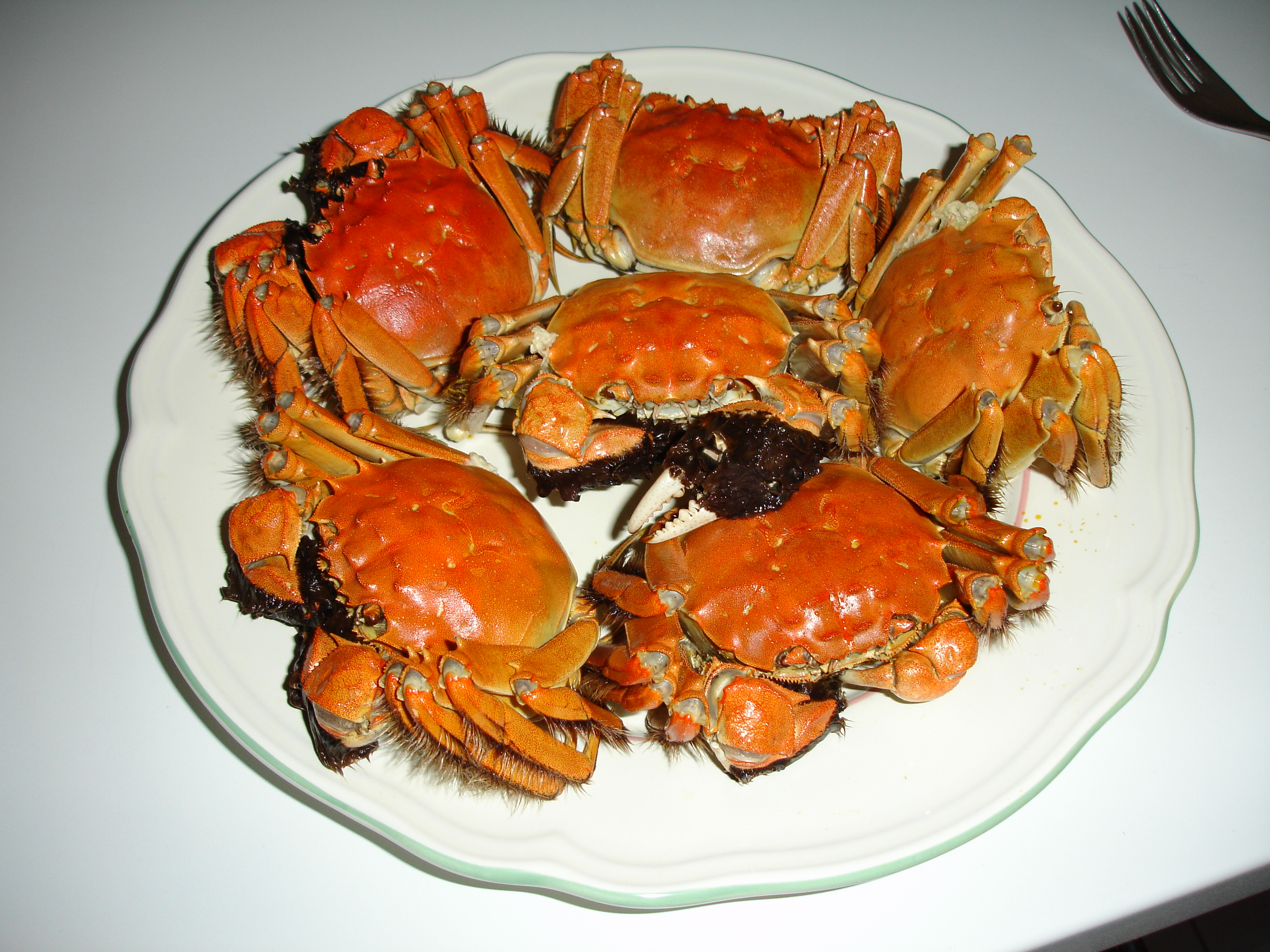 cooked Eriocheir sinensis